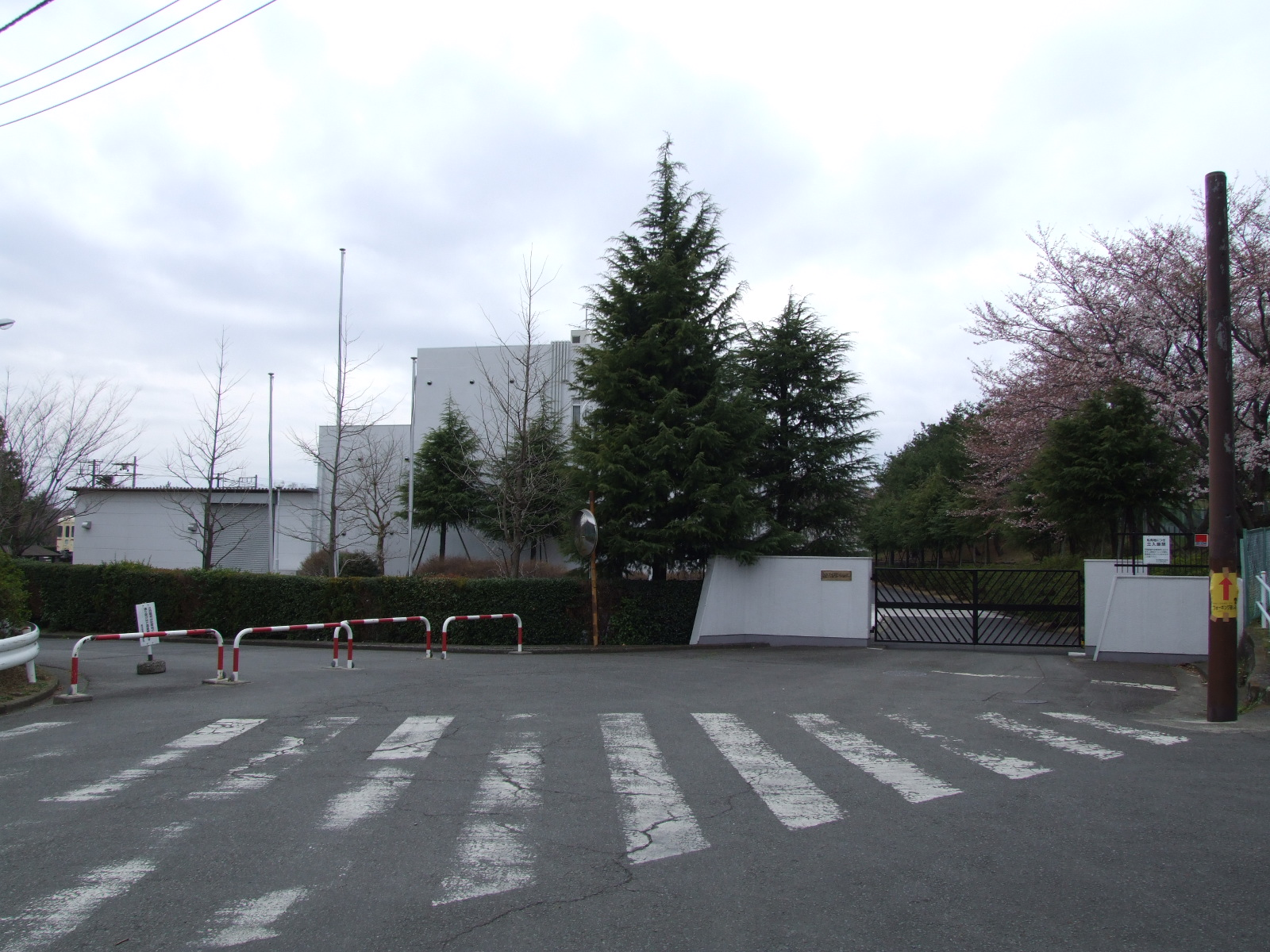 Keio Hirayama Learning Center,Hachioji,Tokyo,Japan